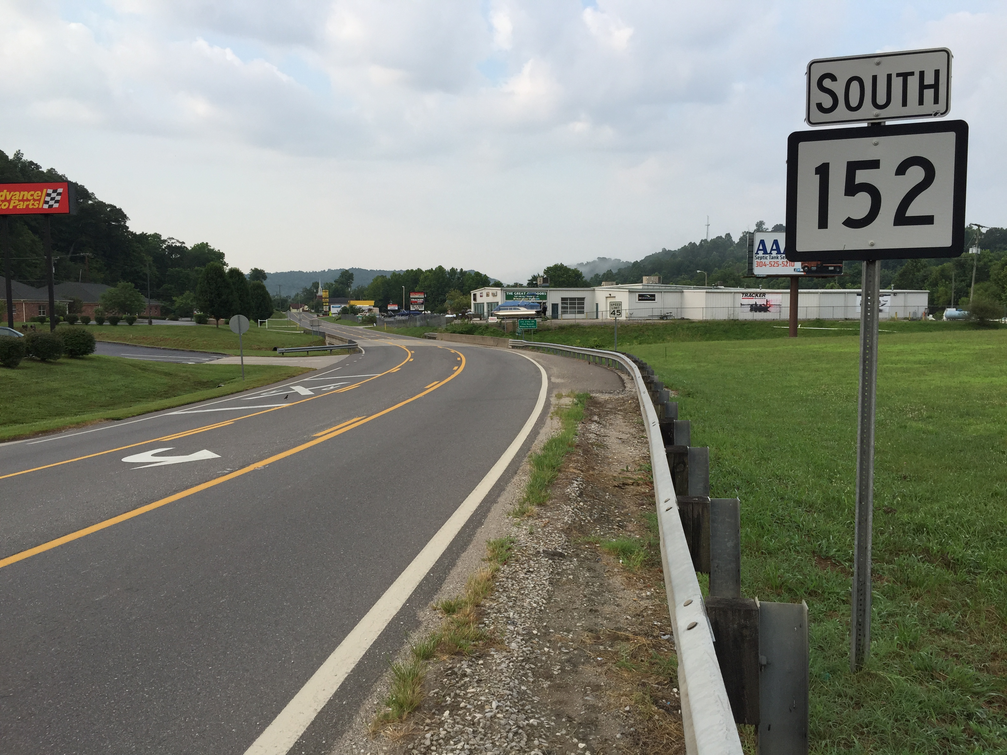 View south along West Virginia State Route 152 (Fifth Street Road) at West Virginia State Route 75 in Lavalette, Wayne County, West Virginia